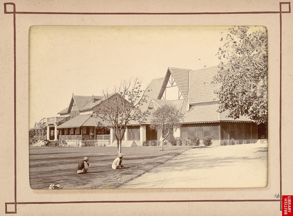 The British had also developed the concept of gymkhanas or sports-houses which provided facilities for all sorts of sports and games for the colonial population in the sub-continent. The Karachi Gymkhana Club, located on Scandal Point (later Club) Road, was a large Tudor-style building, constructed in 1886. Categories (by Wikipedia): Buildings and structures in Karachi, Organisations based in Karachi, Sports clubs in Pakistan, Sports venues in Karachi, Multi-sport clubs in Pakistan, Cricket grounds in Pakistan, Swimming venues in Pakistan, Tennis venues in Pakistan